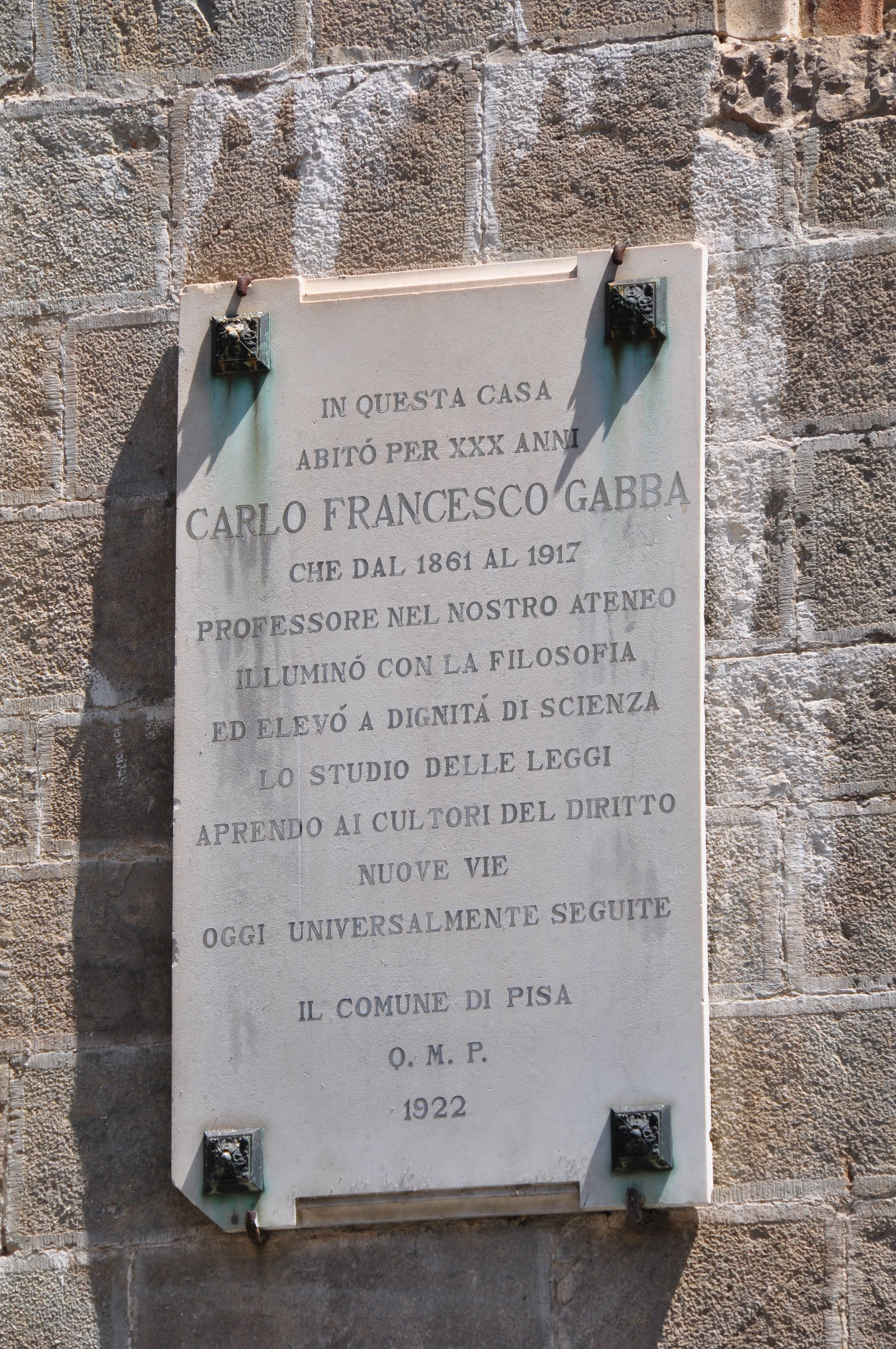 Commemorative plaque affixed to the façade of Palazzo Agonigi da Scorno (via Santa Maria, 30, in Pisa, Italy), remembering the fact that Carlo Francesco Gabba lived in that building for 30 years.